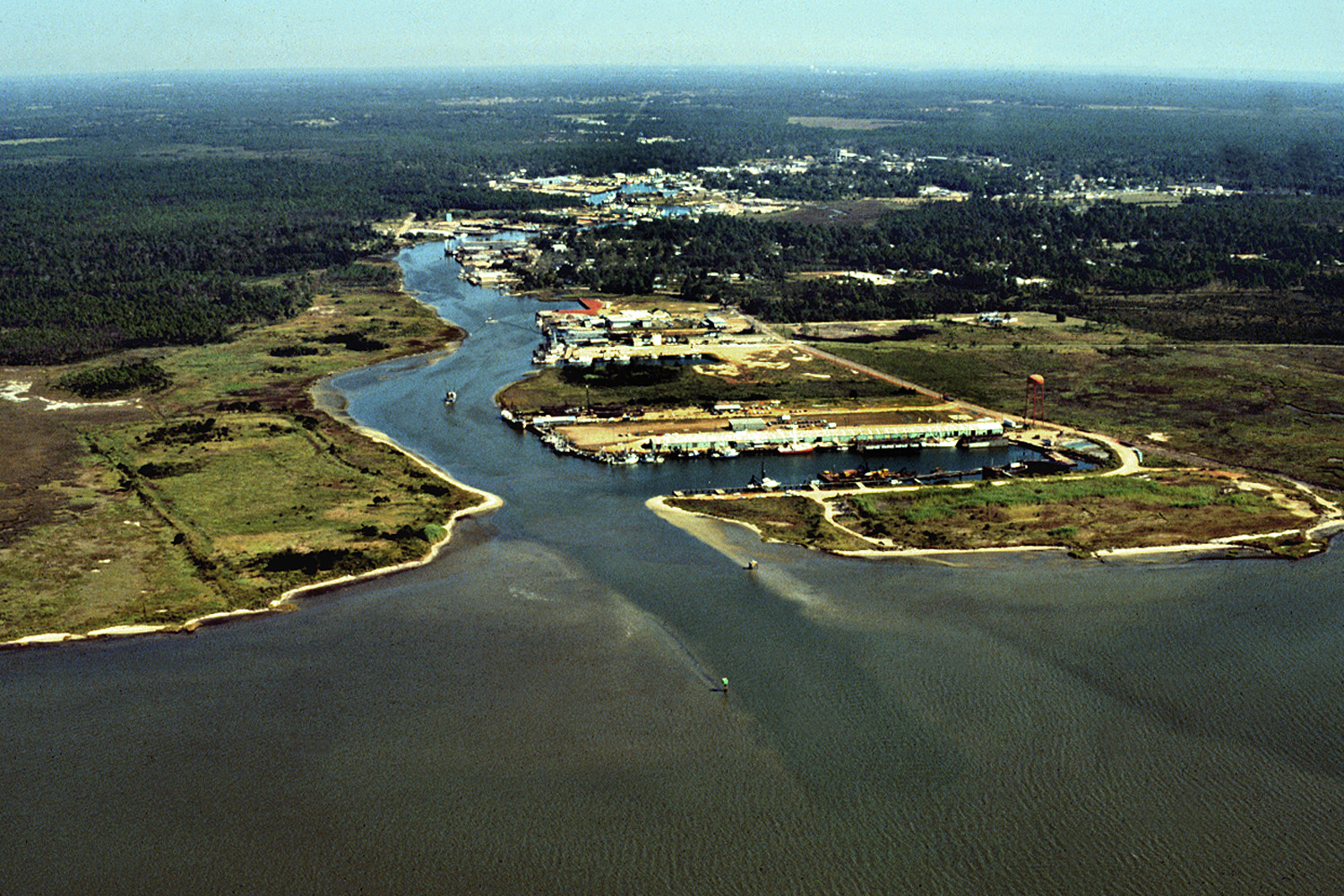 Aerial view of the harbor entrance from the Gulf of Mexico at Bayou La Batre, Alabama, USA. View is to the northwest. Coordinates: 30°23′1.27″N 88°16′16″W / 30.3836861°N 88.27111°W